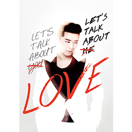 Seungri - Let's Talk About Love red cover